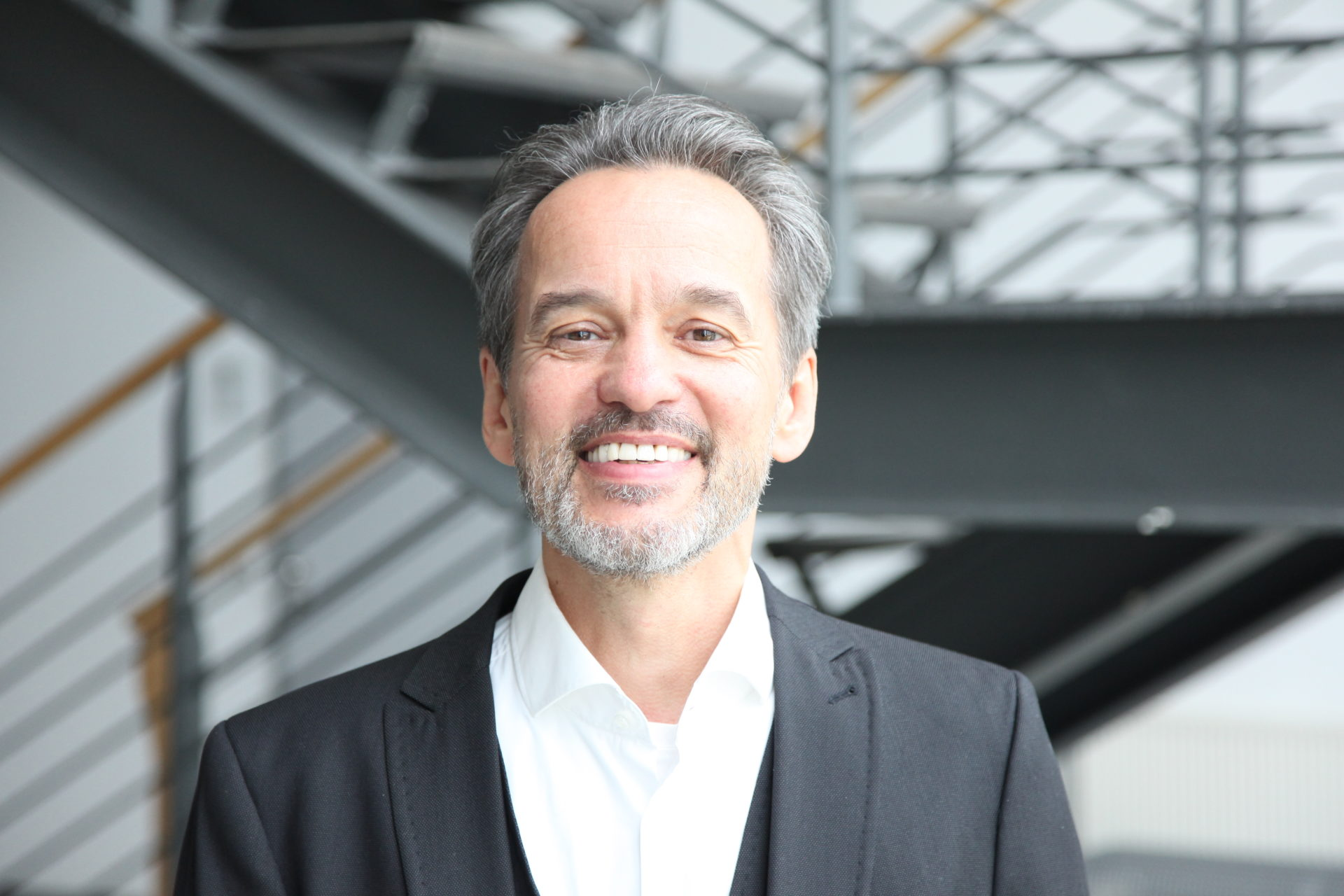 Mike Sandbothe cultural scientist, philosopher, MBSR trainer Germany.